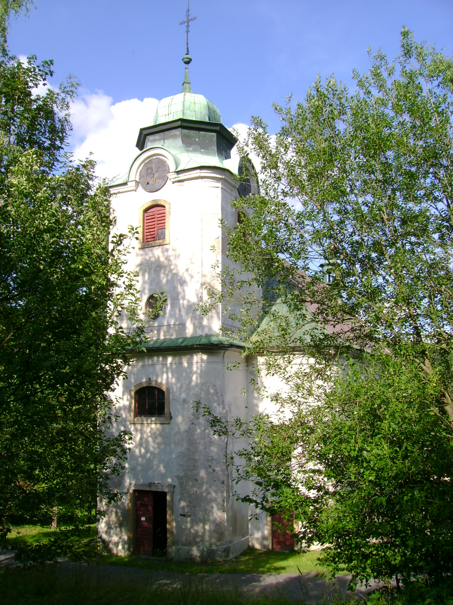 Church of Saint Martin in Zlatá Olešnice in Jablonec nad Nisou District in the Liberec Region of the Czech Republic.